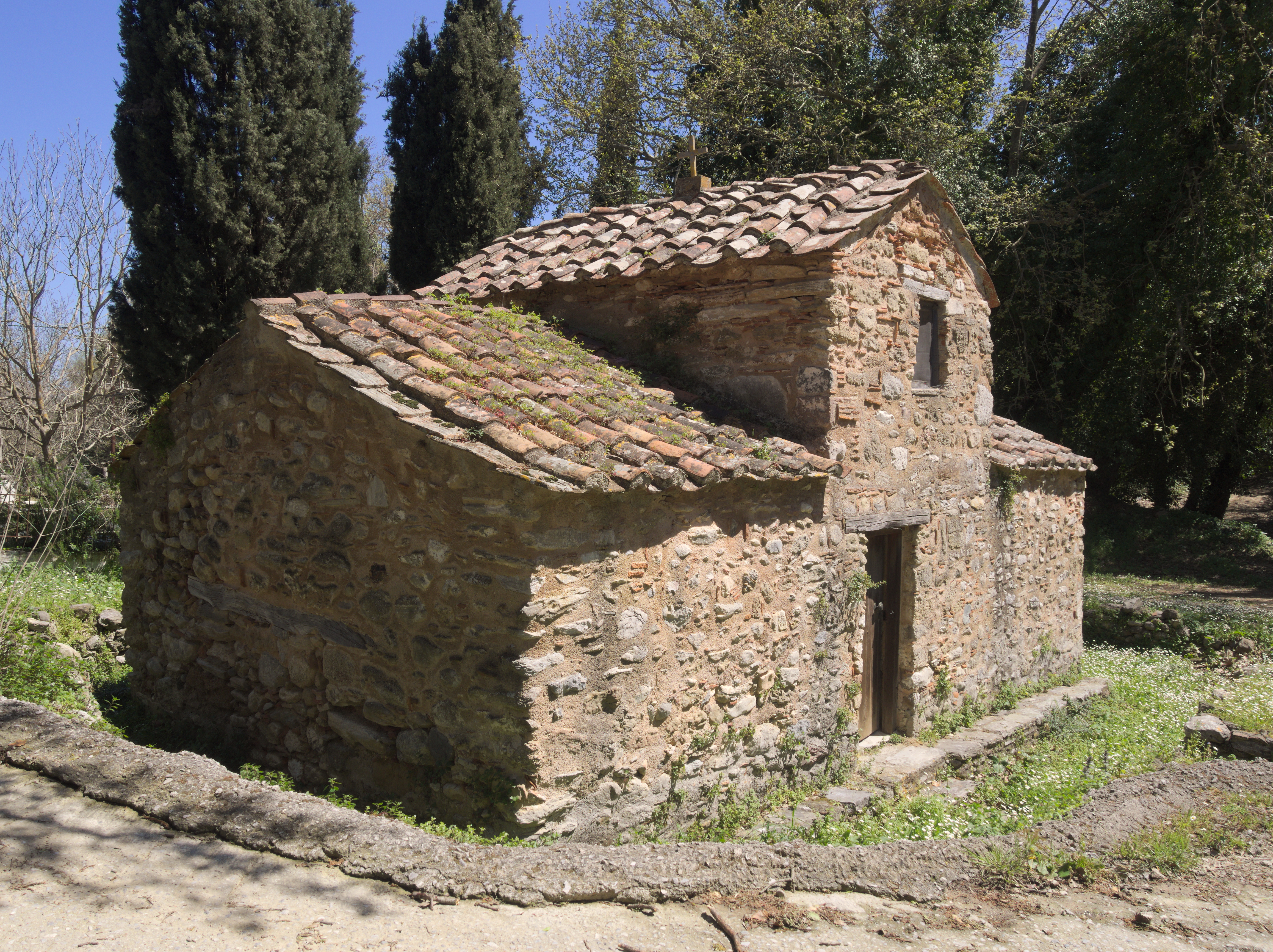 The byzantine church (13-14th century) of Agia Thekla, in Agia Thekla village in Euboea